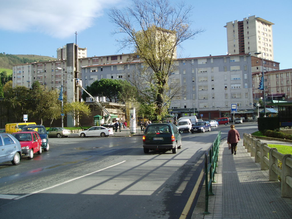 Kepa Enbeita (a.k.a. "Urretxindorra") square in Otxarkoaga district (Bilbao).